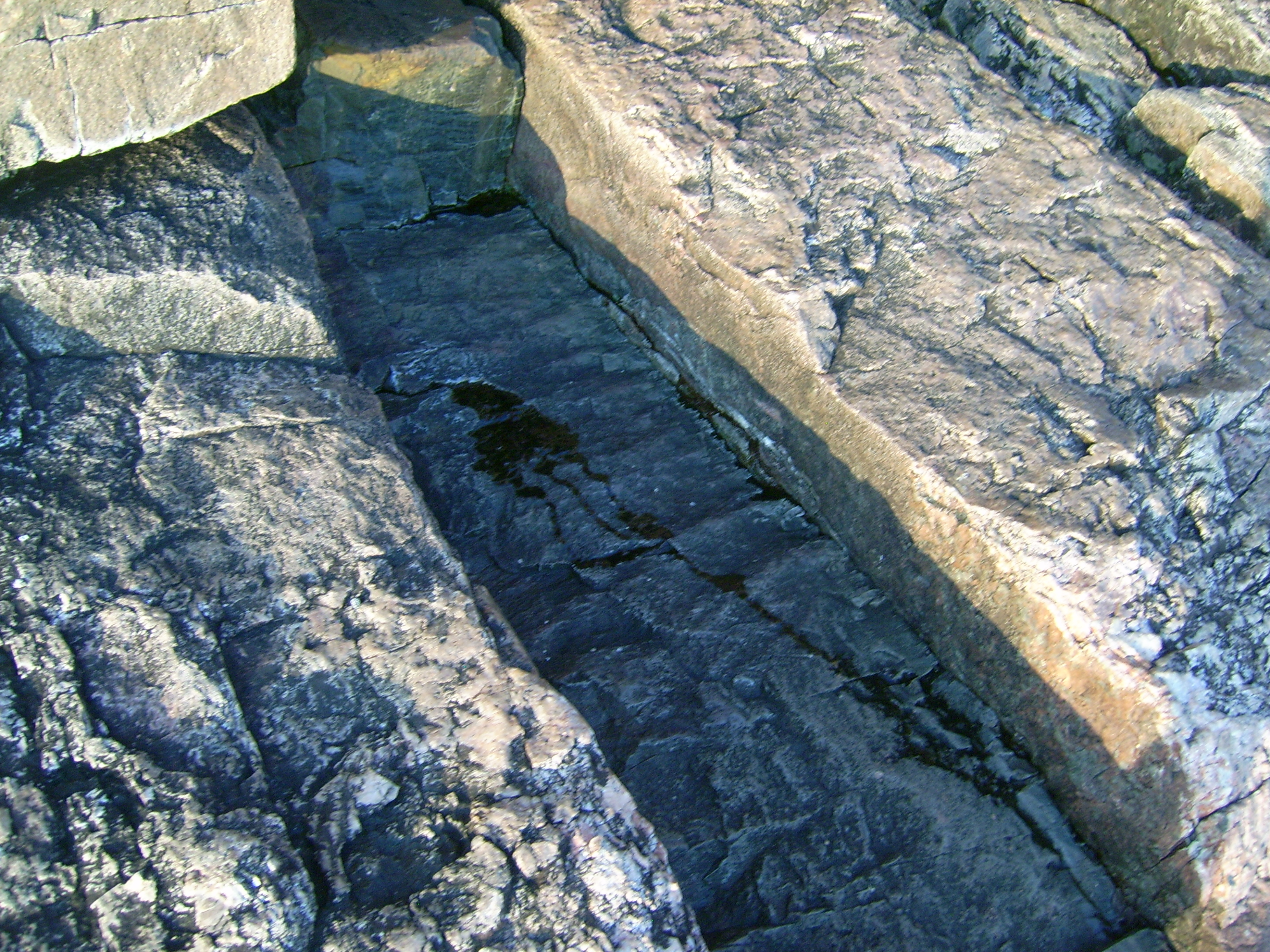 Diabase dyke, Agawa Rock, Lake Superior Provincial Park